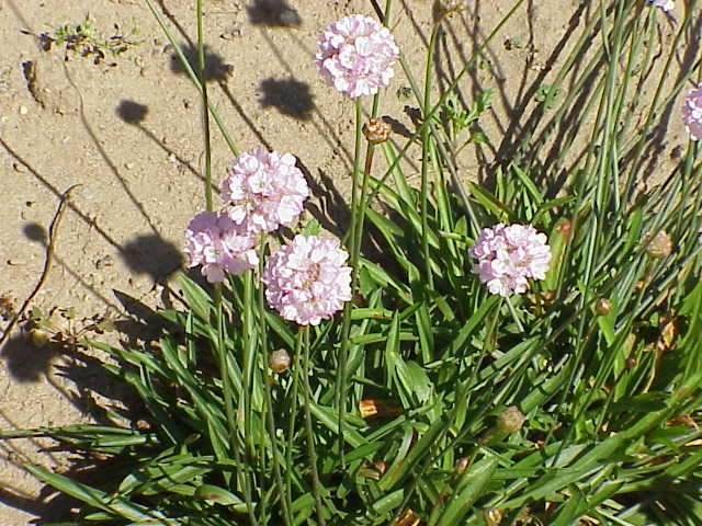 Species: Armeria transmontana Family: Plumbaginaceae Image No. 2